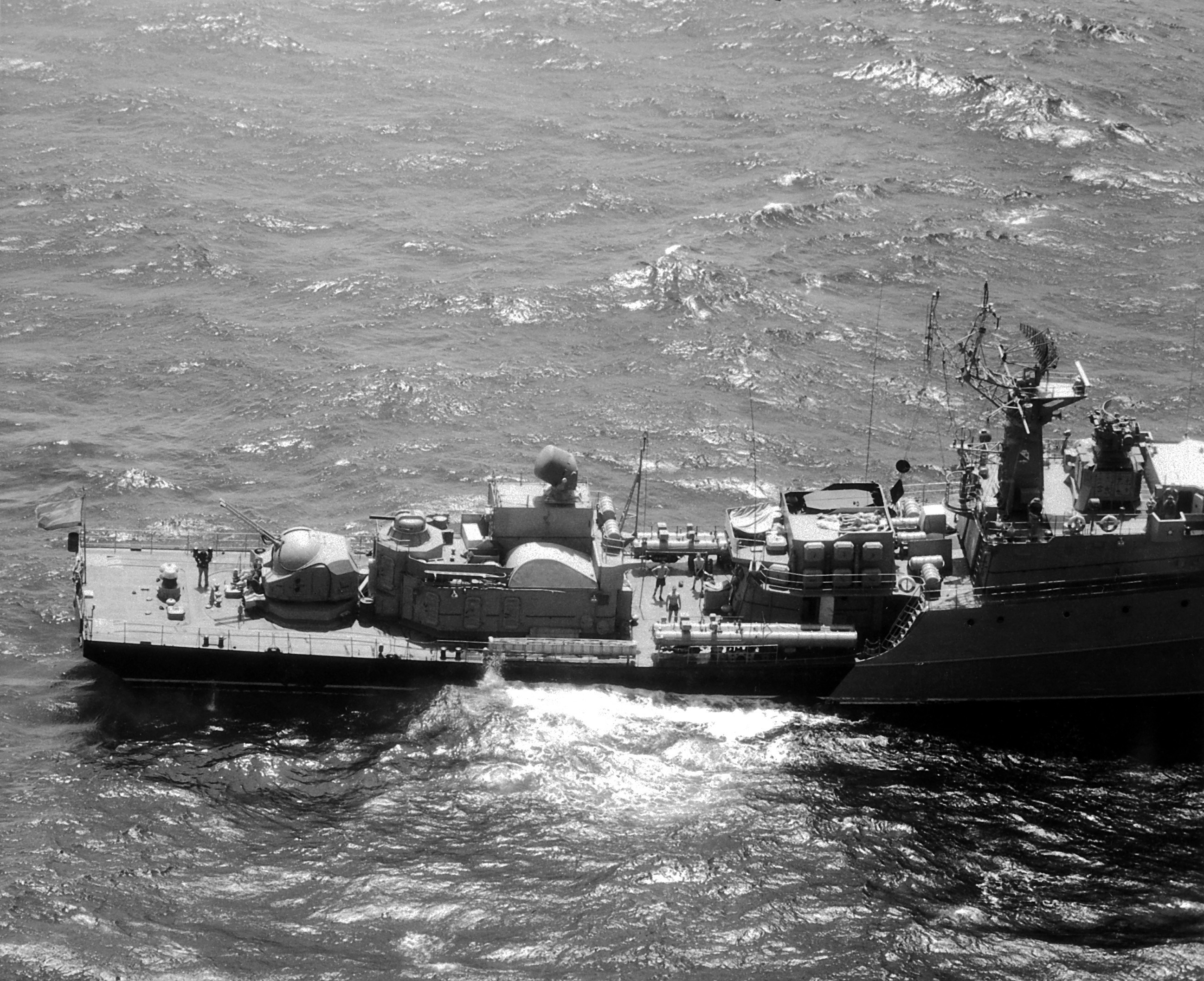 Aerial starboard aft view of a Soviet Grisha III class frigate underway.